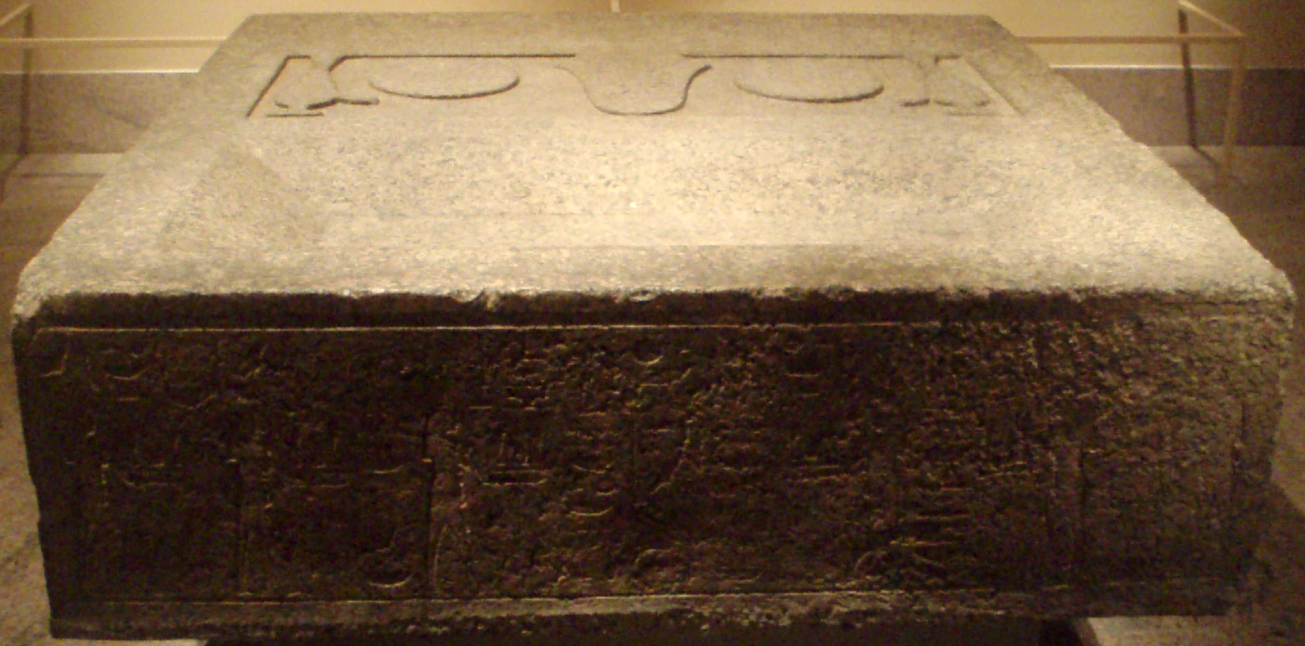 Offering table of Amenemhat I, from the 12th dynasty, circa 1971-1962 B.C. Used for offerings in the funerary temple of this pharaoh.